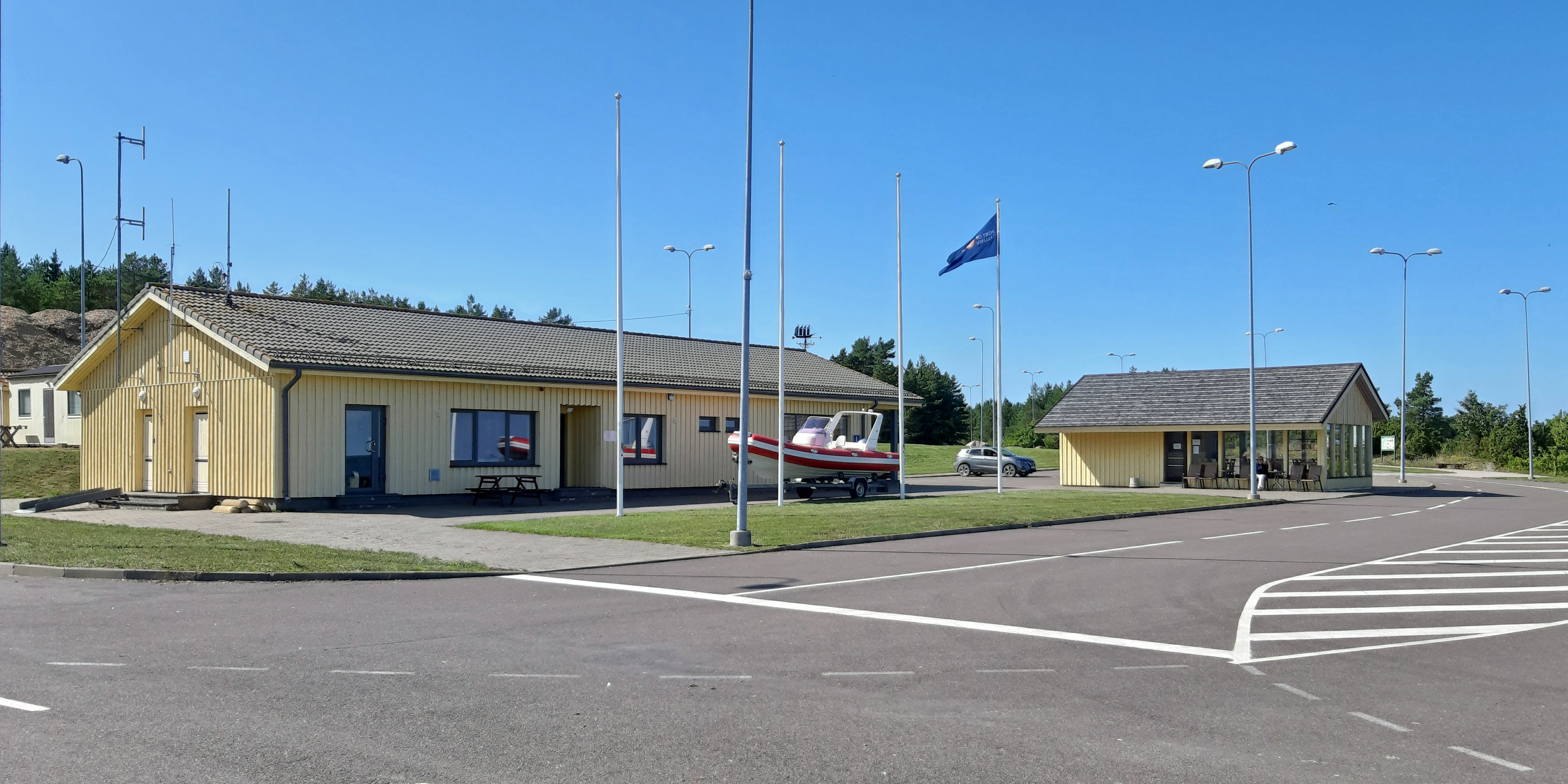 Saaremaa Harbour, Estonia.